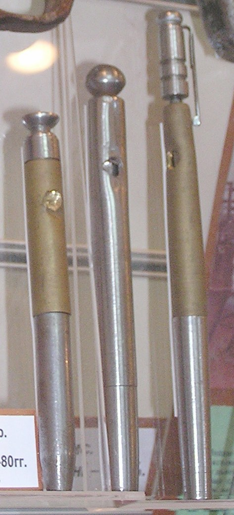 Hand crafted pen guns confiscated from criminals. Russia, 1970s/1980s.